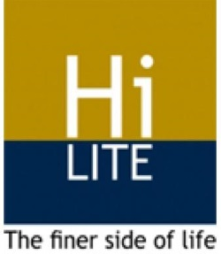 HiLITE Builders is a reputed apartments and flats builders in Calicut.